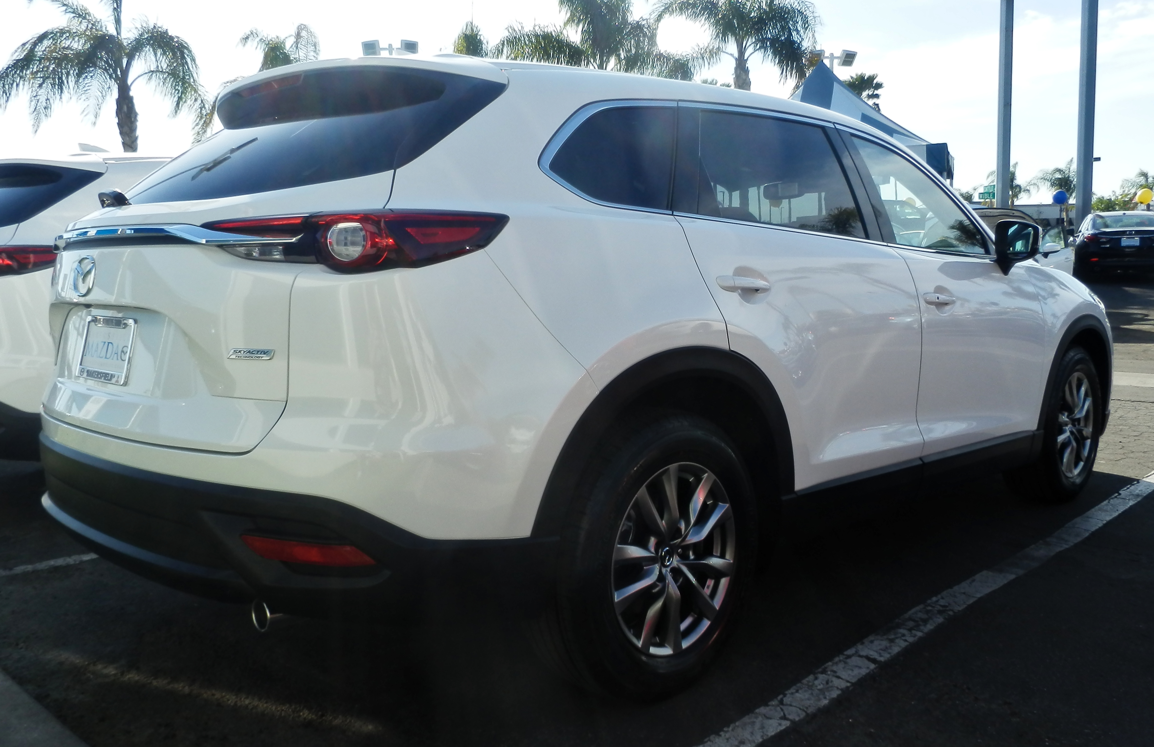 Mazda CX-9 in Bakersfield